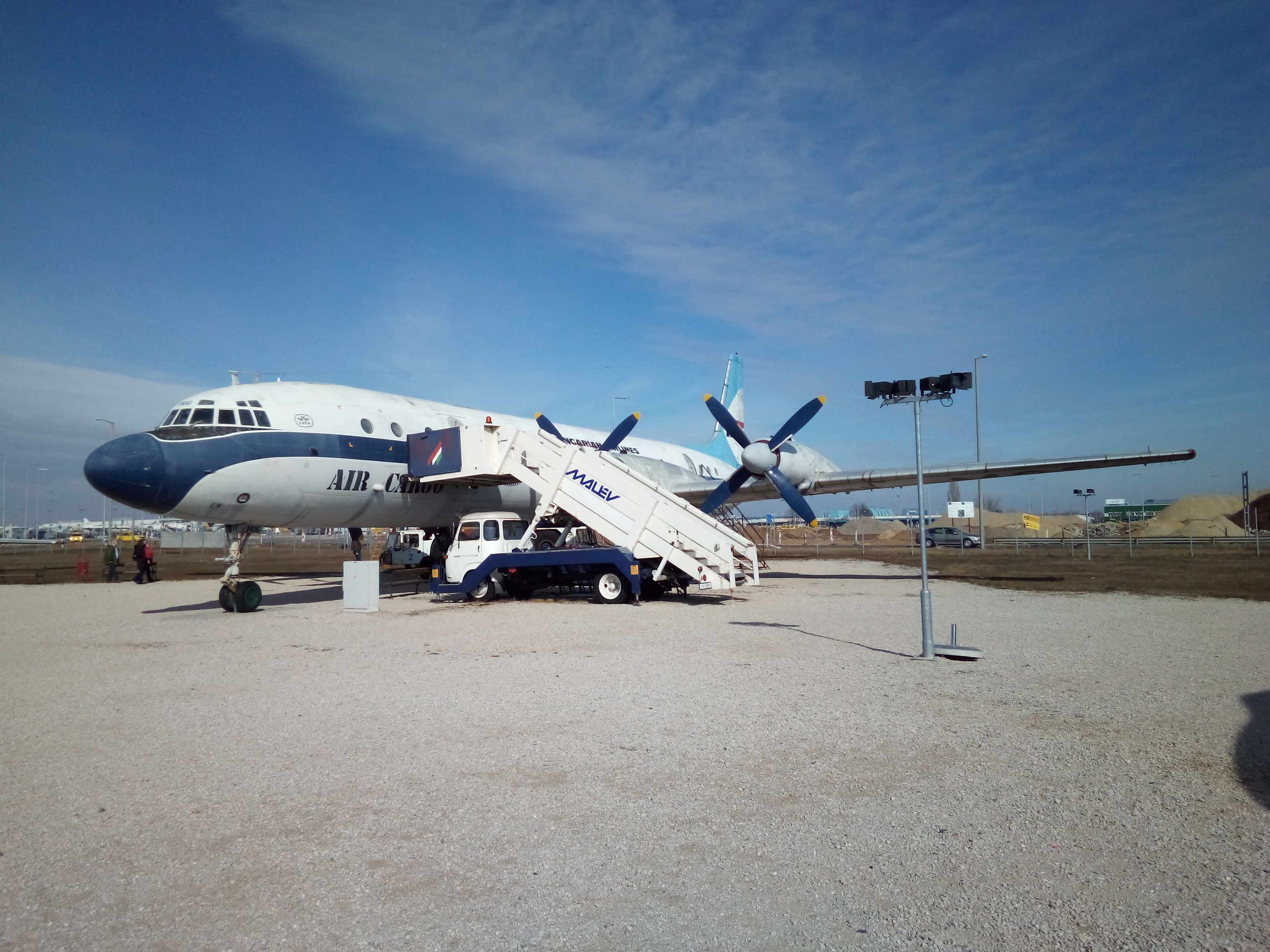 Il-18